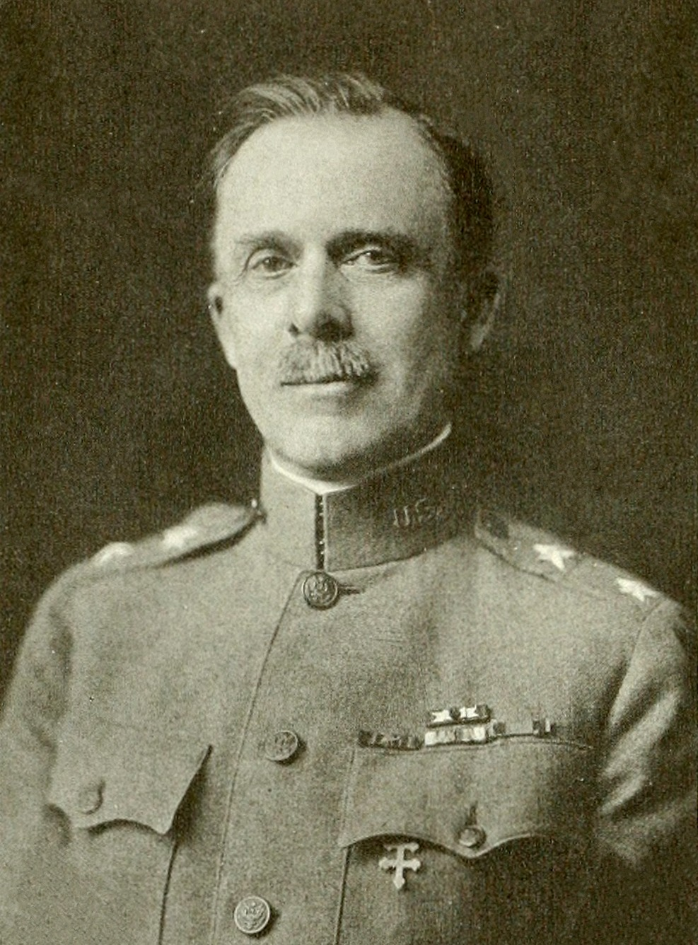 Brigadier General Walter H. Gordon, Commanding the Tenth Infantry Brigade from December 1, 1917, to August 28, 1918.